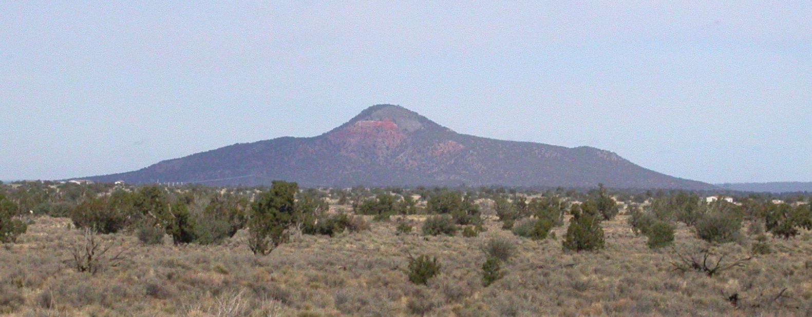 Red Butte, Arizona, viewed from the south.